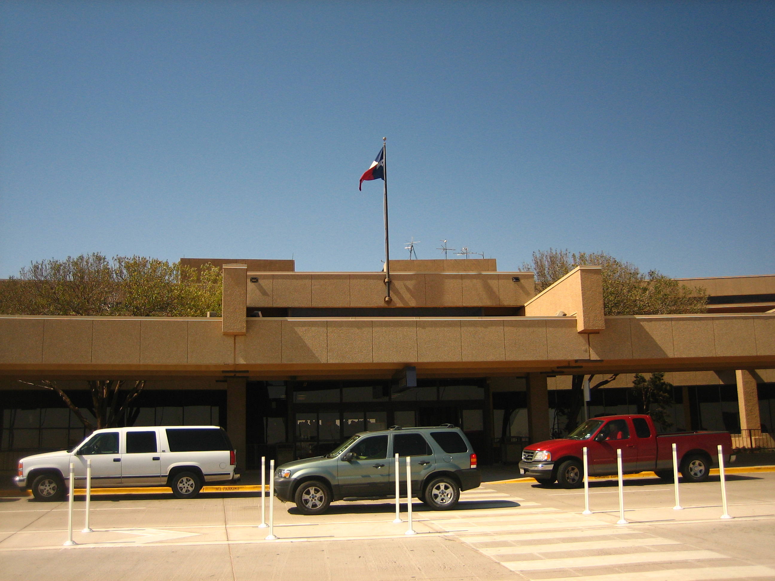 Lubbock Preston Smith International Airport on April 5, 2009.